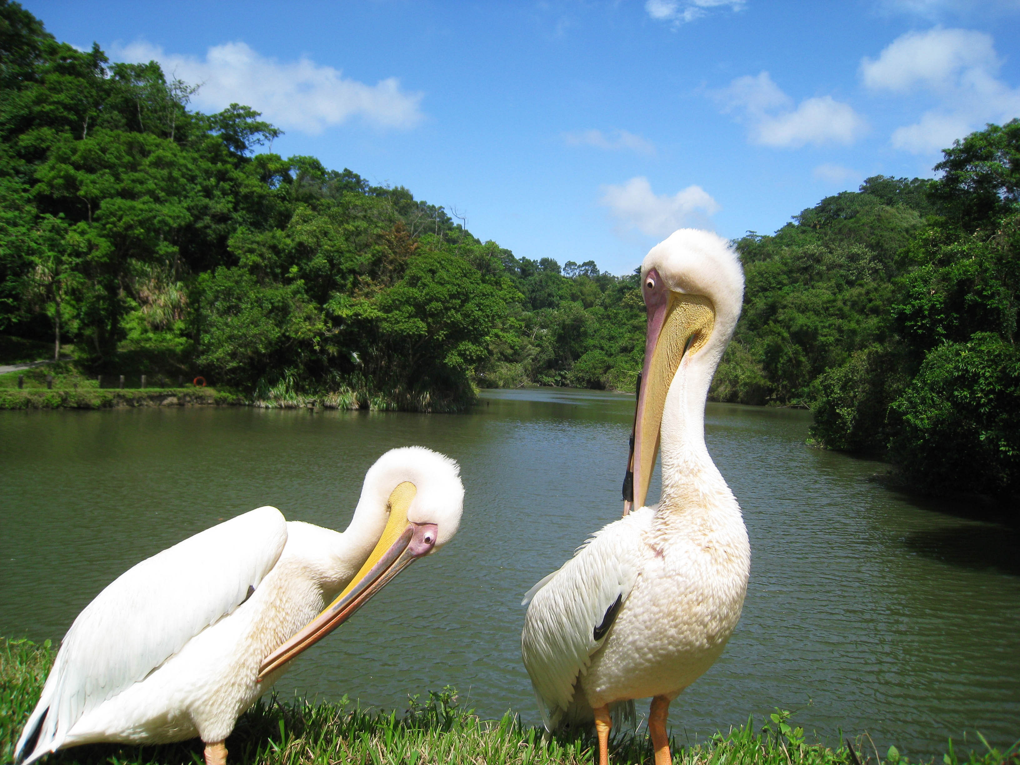 Pelicans in Green World Ecological Farm are very friendly and close to tourists.